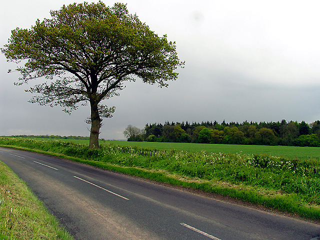 Country Road View. A view taken of the corner of an unnamed plantation and farmland in the north western quadrant of the grid square. The picture was taken from the east side of the road and looks at the northern corner of the plantation.